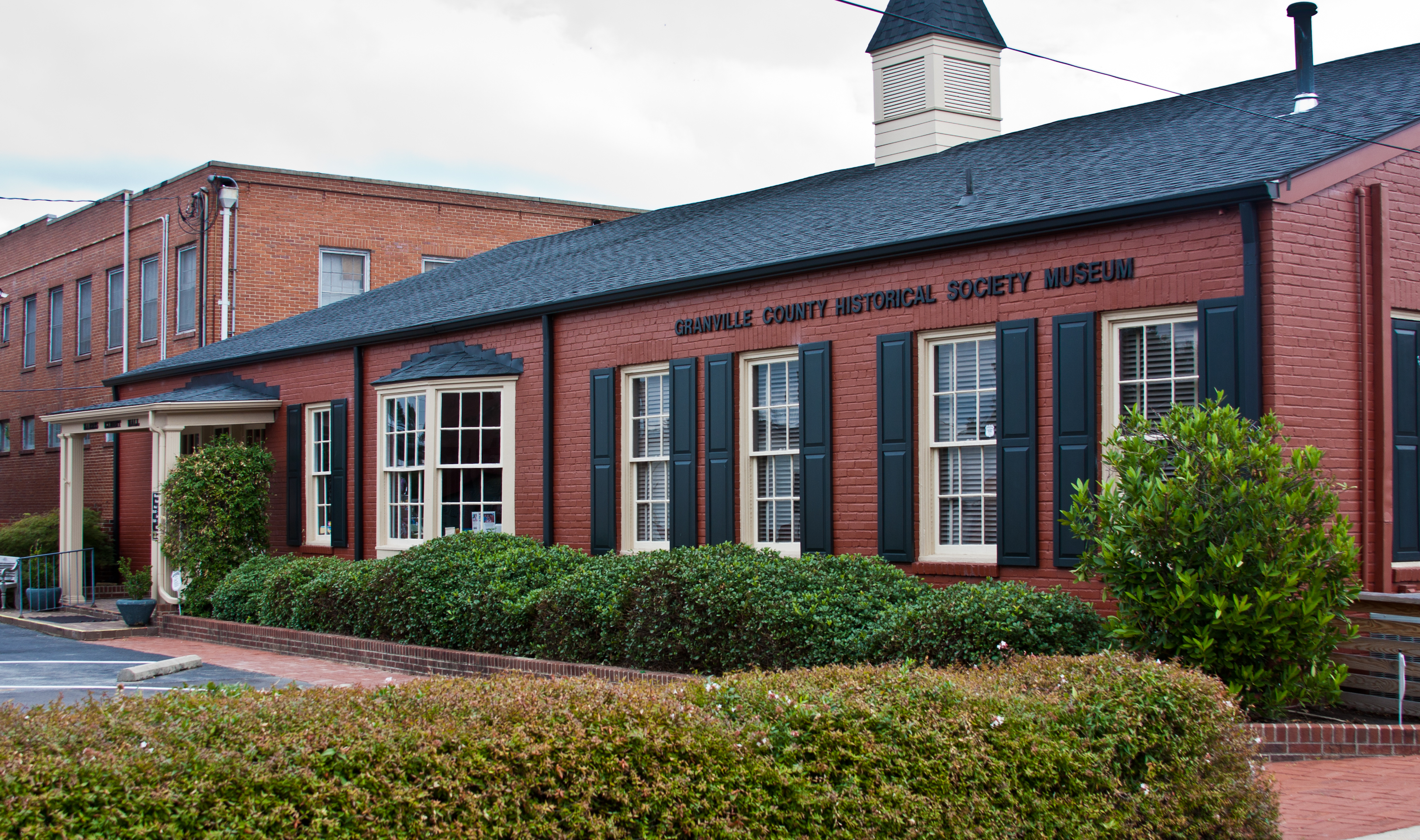 Oxford Historic District Granville County Historical Society Museum, Oxford, NC